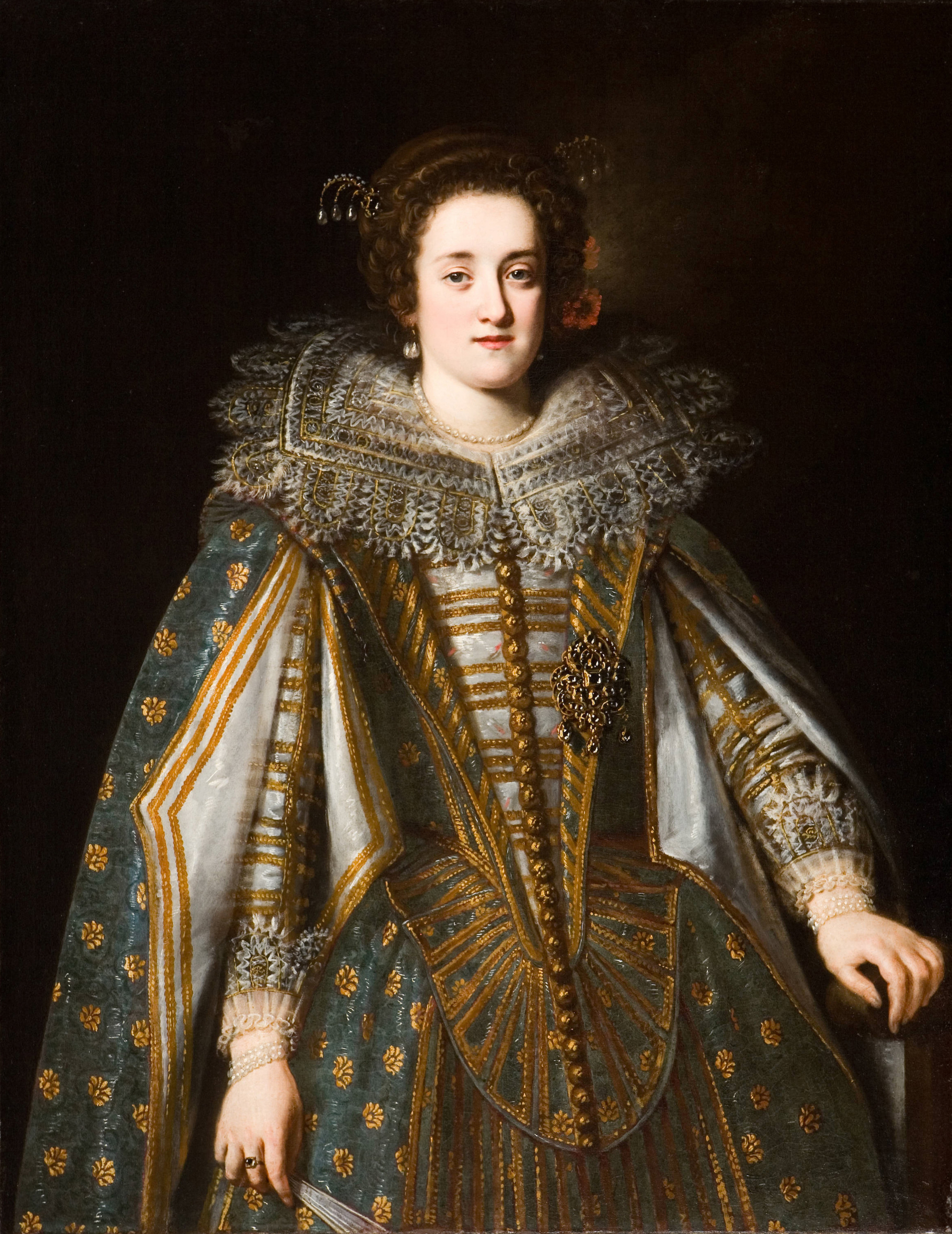 Portrait of Margherita de' Medici (1612-1679)